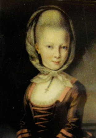 Princess Louise of Stolberg-Gedern (1764-1828)